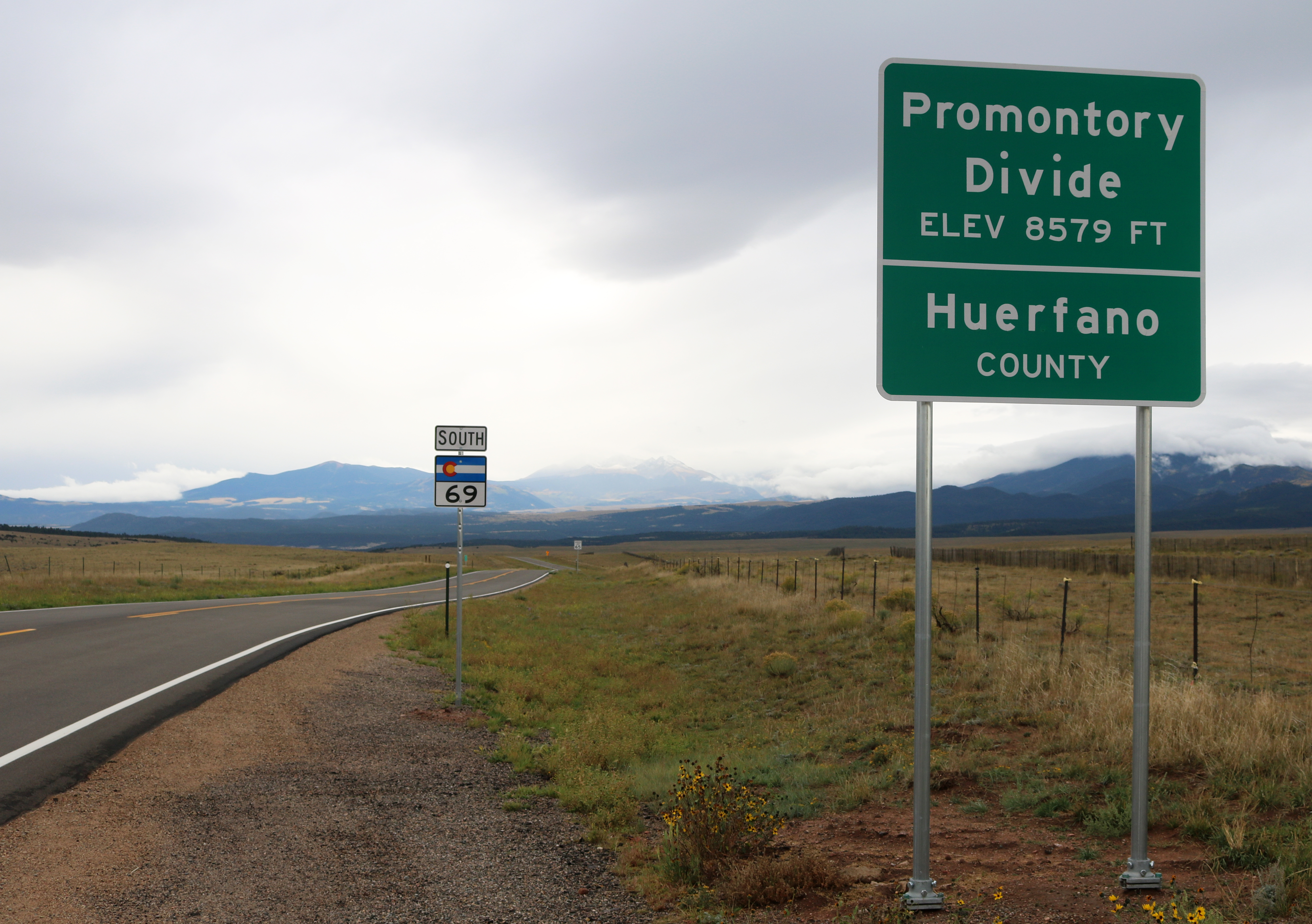 Promontory Divide, a pass and ridge on the Custer County / Huerfano County line on Colorado State Highway 69. The view is to the south, looking into Huerfano County.